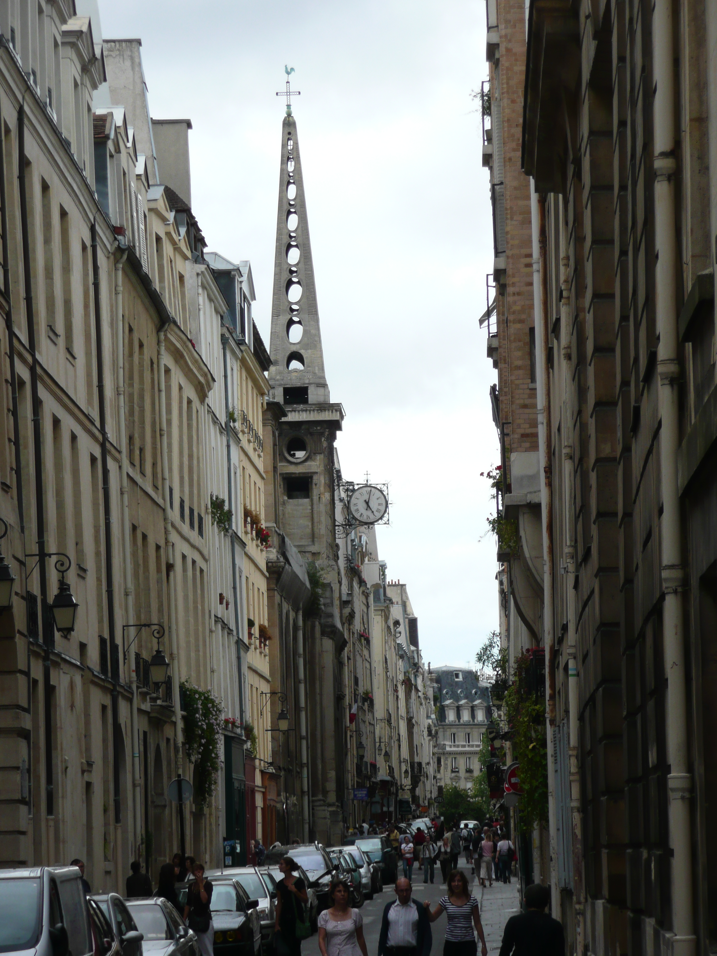 St-Louis en l'Ile street, St-Louis island, Paris